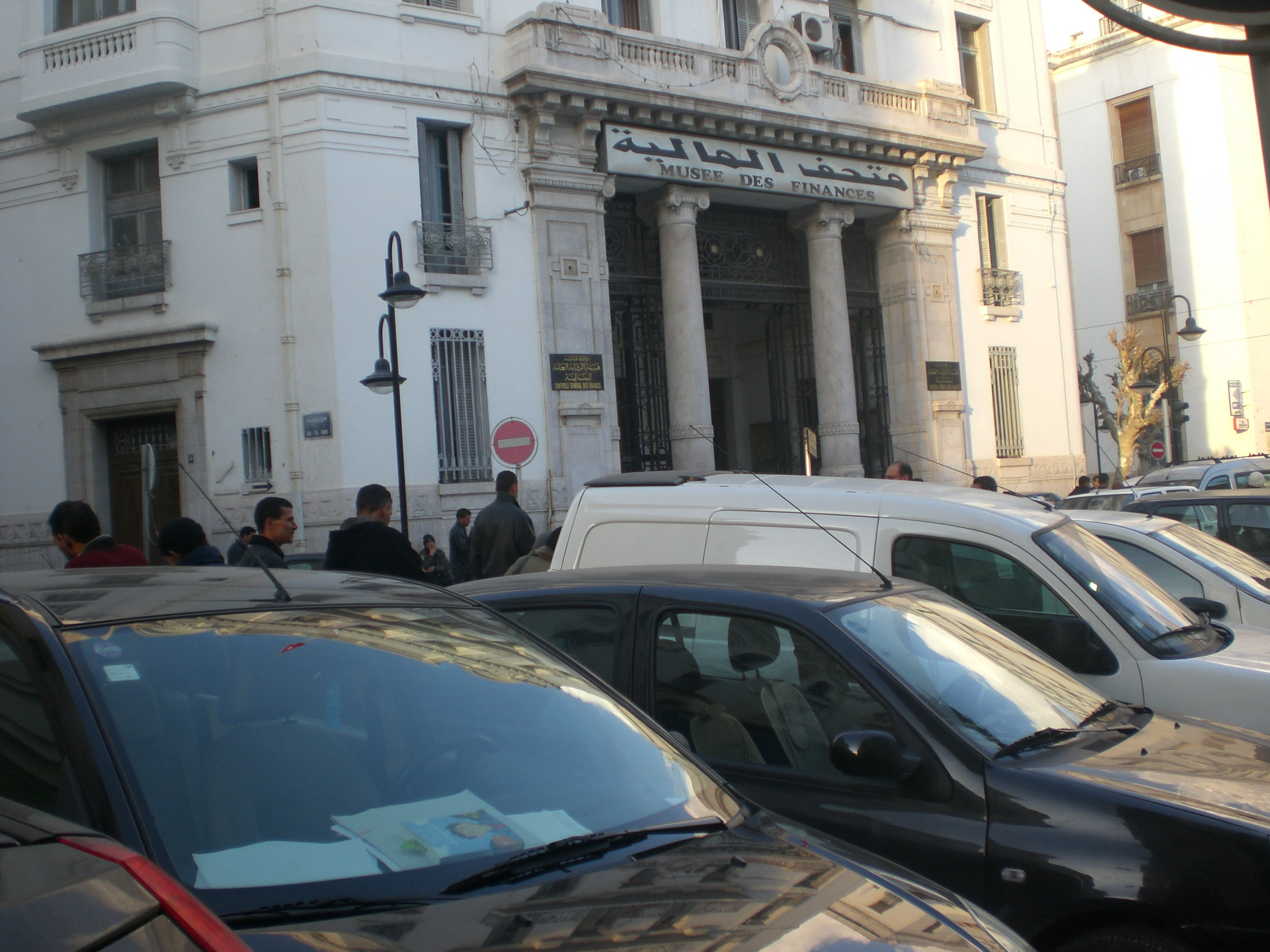 The museum of money-Tunis